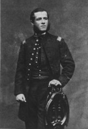 Lt Col Henry Harrison Young, General Sheridan’s Chief of Scouts.